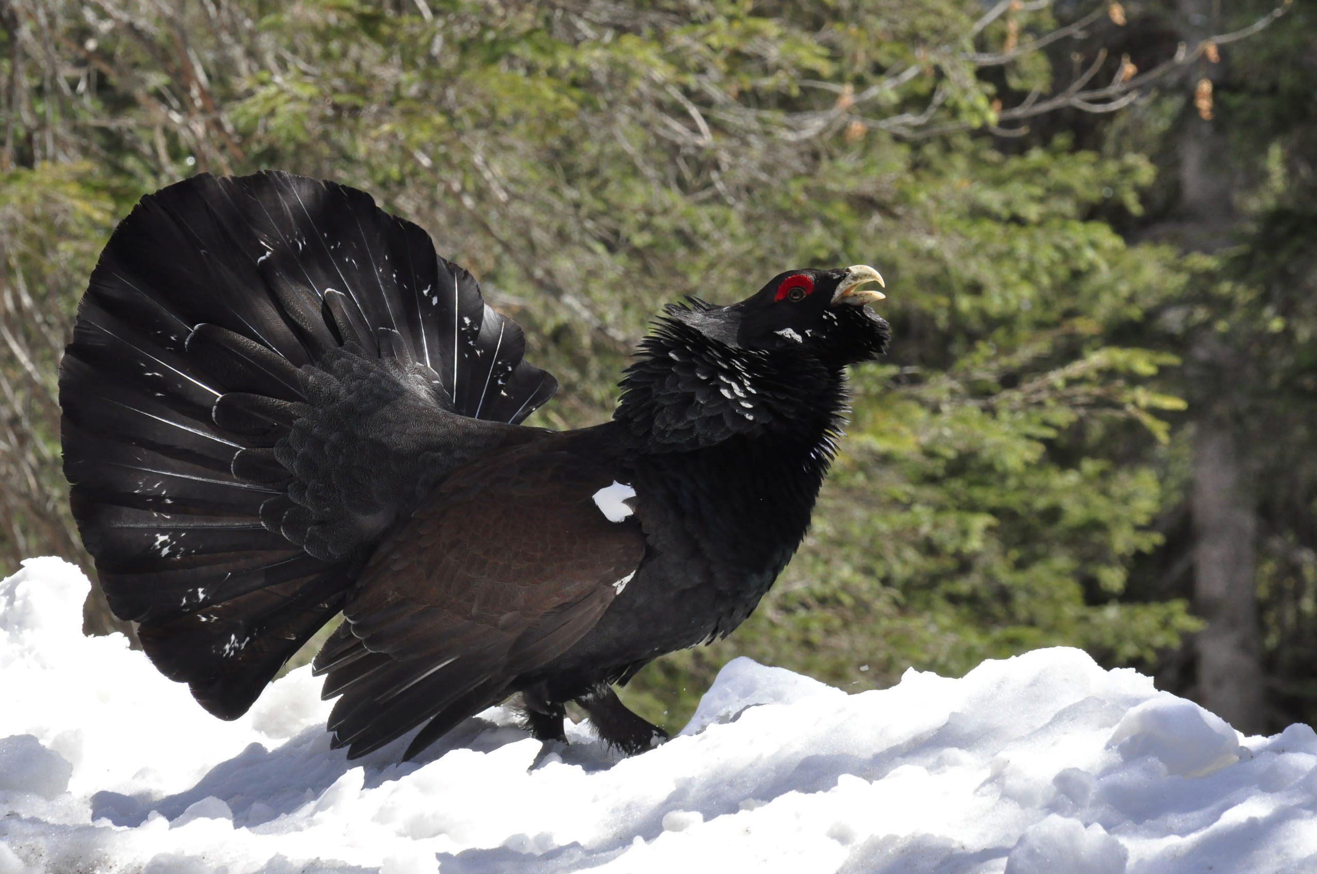 Western Capercaillie (Tetrao urogallus), seen in the Ennstal in Styria, Austria, on courtship